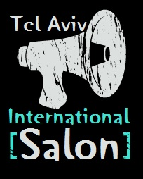 Tel Aviv International Salon - Am Yisrael Foundation